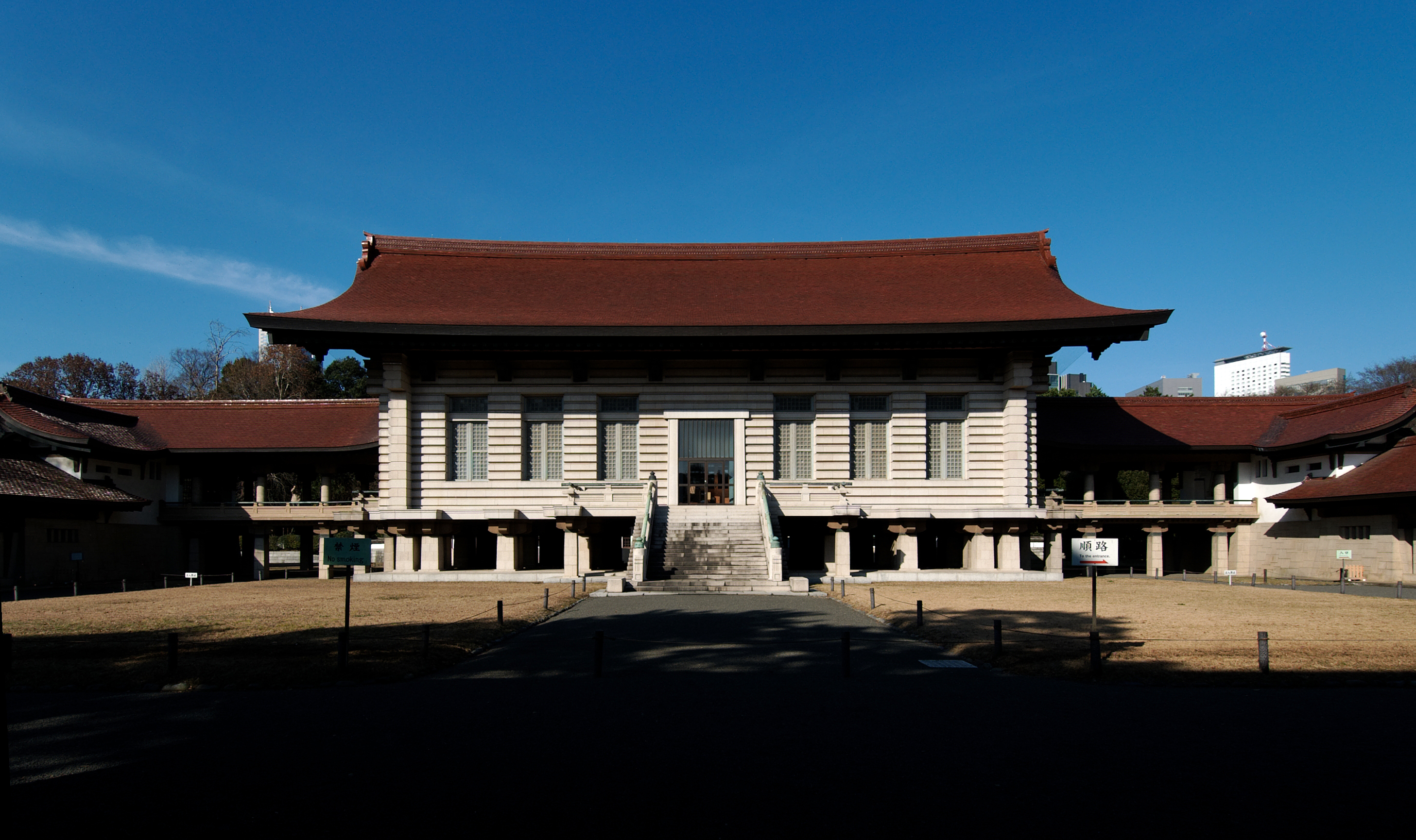 Treasure Museum of Meiji Shrine, at Meiji Shrine Tokyo Japan, design by Shintaro Oe in 1921.